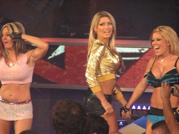 Lacey joins Madison & Velvet to make the Beautiful People.